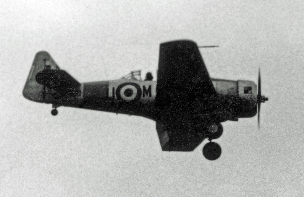 North American (Noorduyn) Harvard IIB of No. 22 Flying Training School RAF landing at RAF Syerston in July 1954